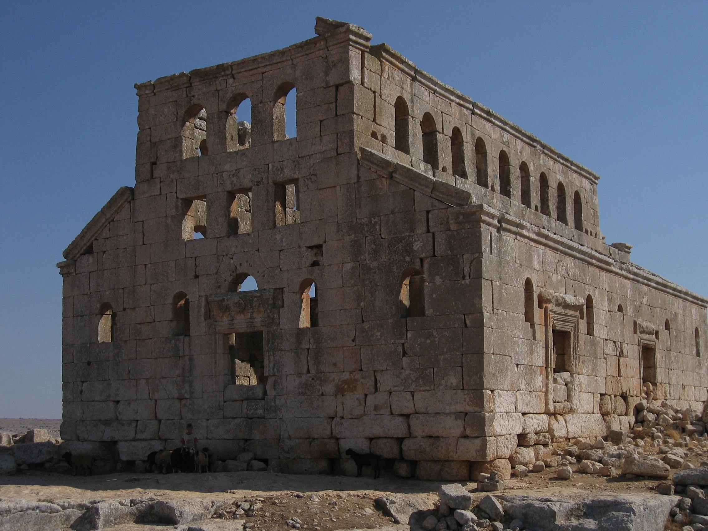 Description: Byzantine church of Mushraba Syria